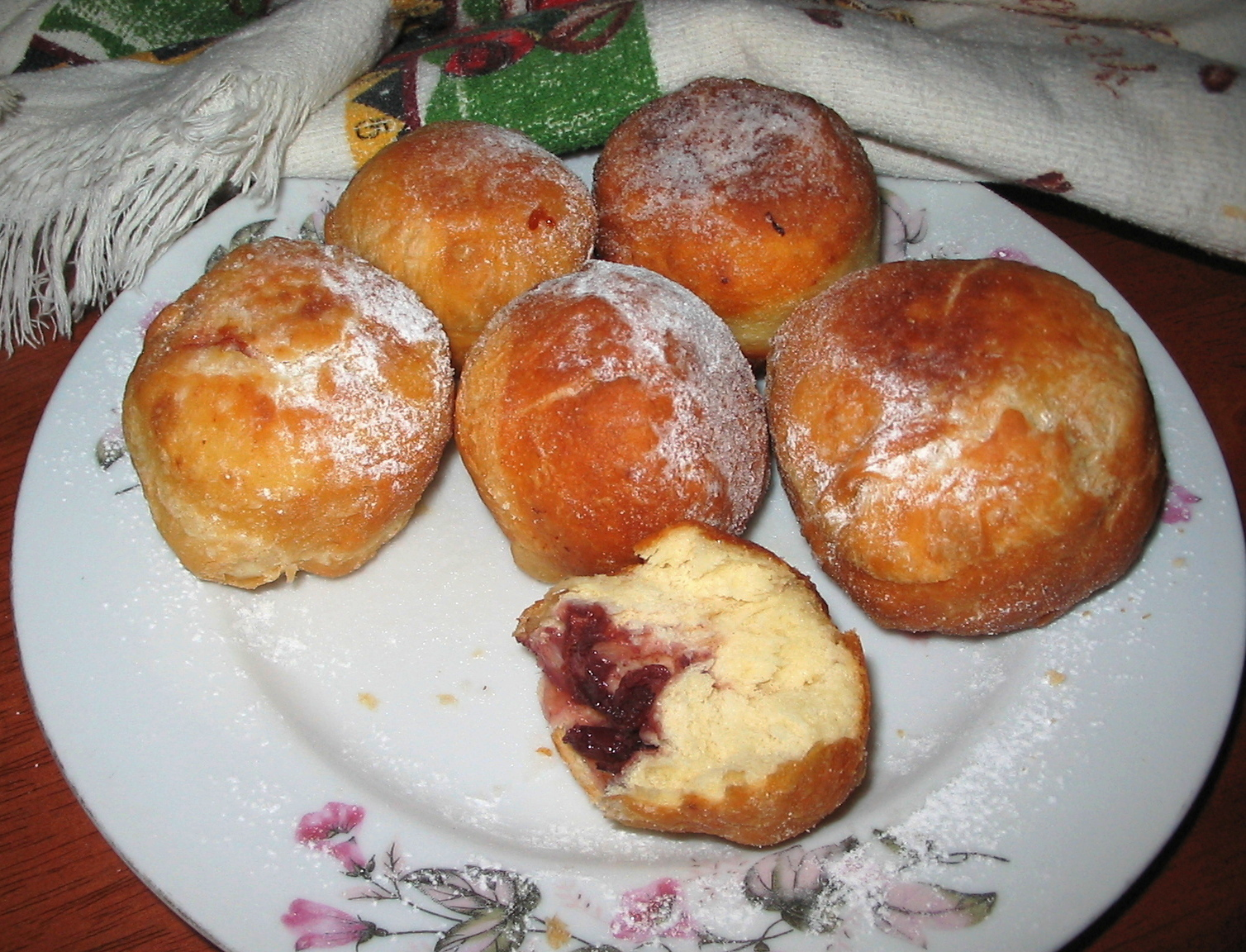 Ukrainian pampushky (which are similar to berliner pastries in English or Polish pączki) with cherries and icing sugar.